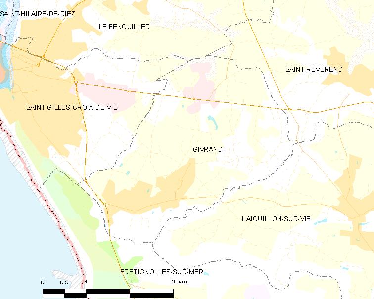 Map of French municipality Givrand